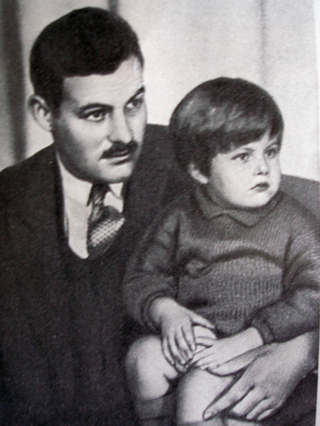 Ernest Hemingway with son John Hadley Nicanor (Bumby)